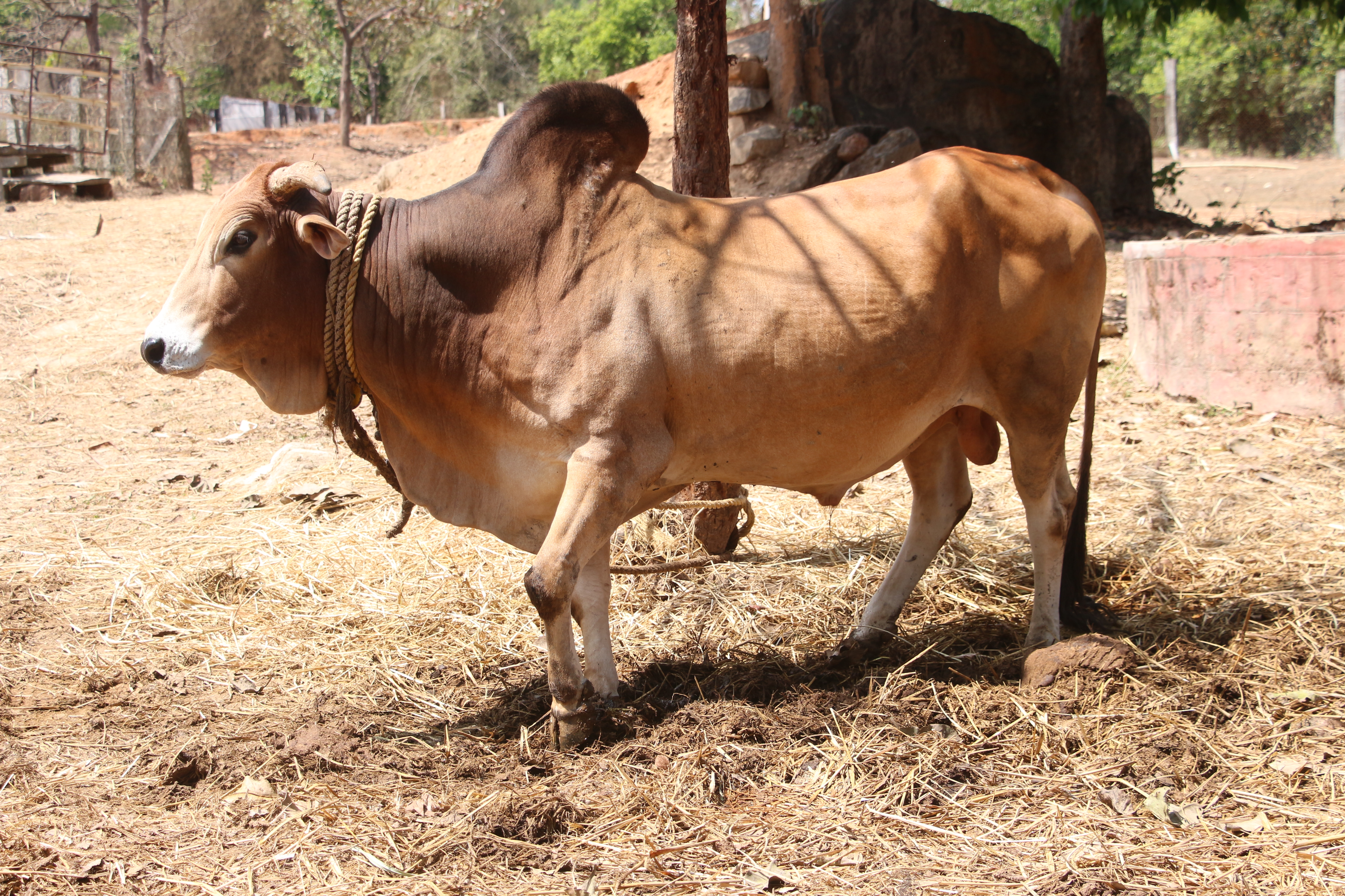 Indian cow breed Rathiಕನ್ನಡ: ಭಾರತೀಯ ಗೋತಳಿ ರಾಟಿ